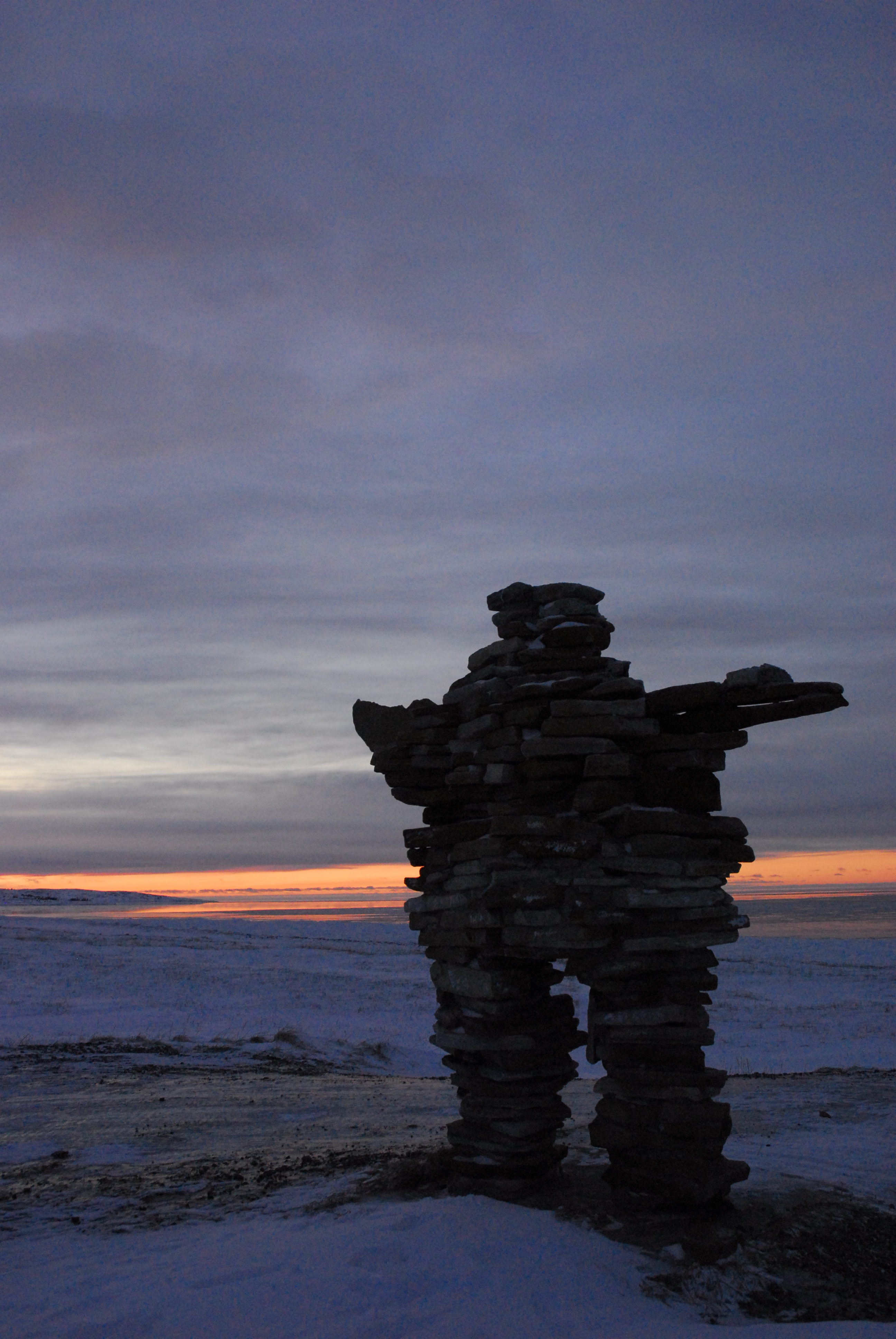 The largest inukshuk in the vicinity of the village of Kuujjuaraapik (alternate spelling: Kuujjuarapik ; Cree name: Whapmagoostui ; French name: Poste-de-la-Baleine ; English name : Great Whale River)